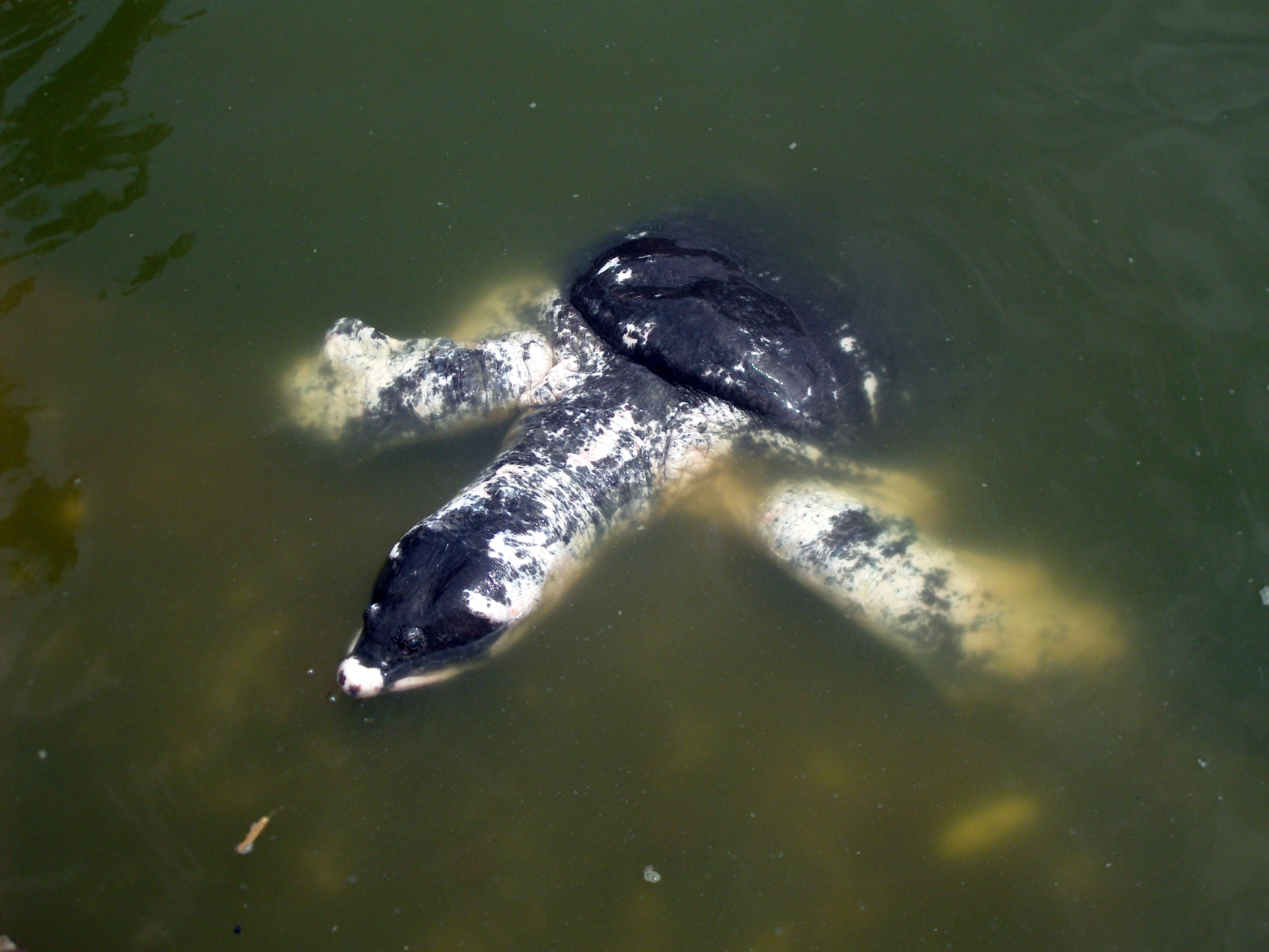 Tortoise of Bayazid bostami mazar